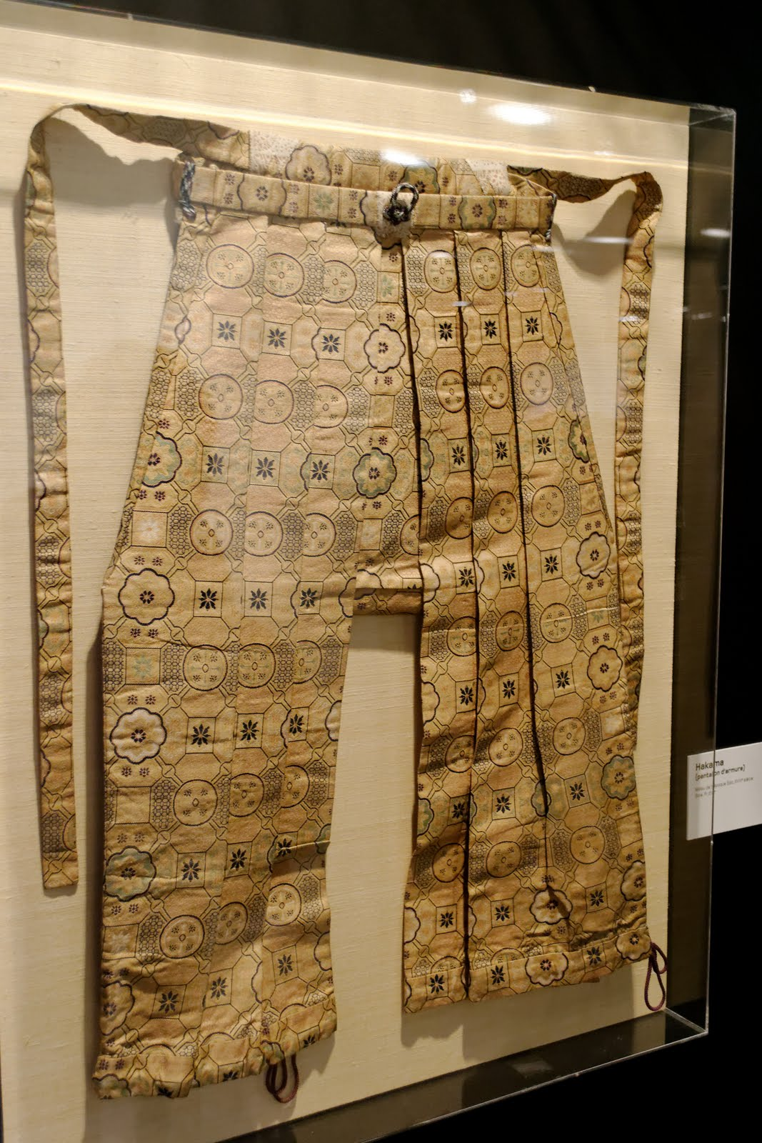 Antique Japanese (samurai) hakama. The "Samurai: Armor of the Warrior" exhibit 2011, Musée du Quai Branly, Paris France, from The Ann and Gabriel Barbier-Mueller Museum, Dallas Texas.